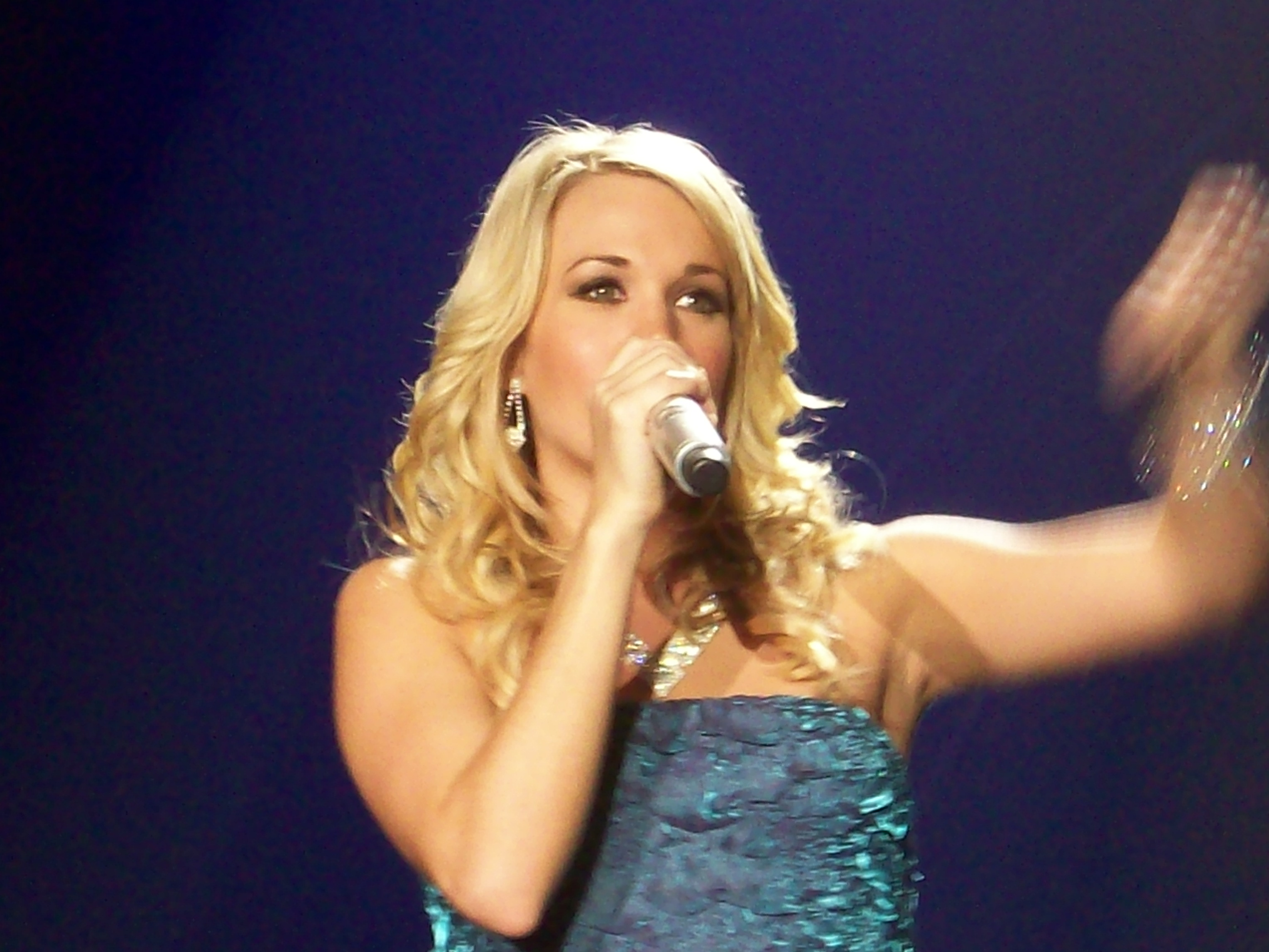 carrie underwood...little big town 246